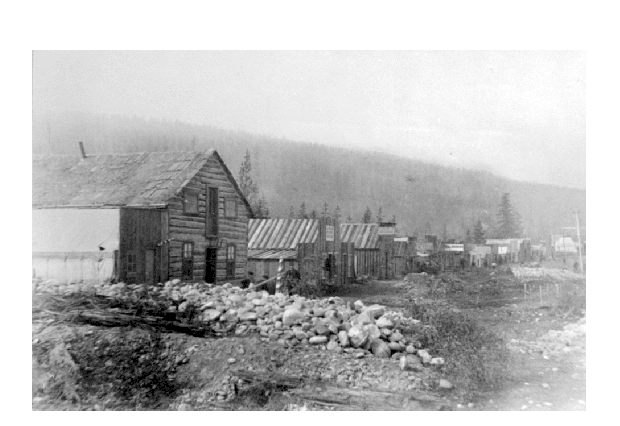 Photo taken 1886 Photograper Deville, Edouard Gaston BC Archives #D-04671 [1]